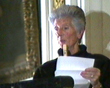 Dora Ibarburu in the acceptance speech of Prof. Emeritus appointment by the Council of the Faculty of Medicine in 1987. Montevideo, Uruguay. Picture of a video made by the author.